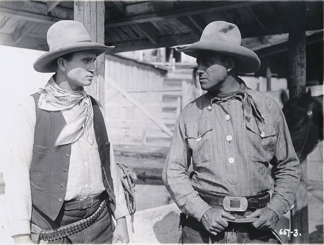 Leo Willis (left) and Roy Stewart in the American western film The Silent Rider (1918).